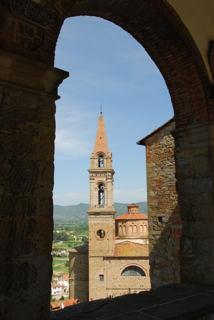 View of Castiglion Fiorentino